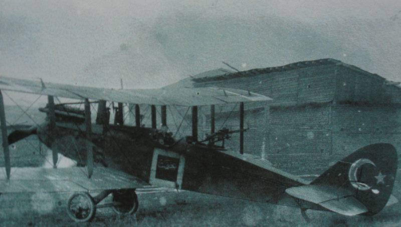 De Havilland DH.9 taken from Greeks, August 23, 1921